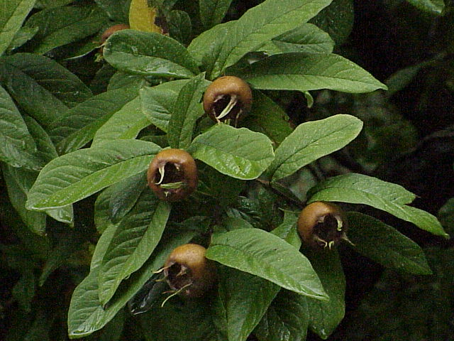 Species: Mespilus germanica Family: Rosaceae Image No. 2